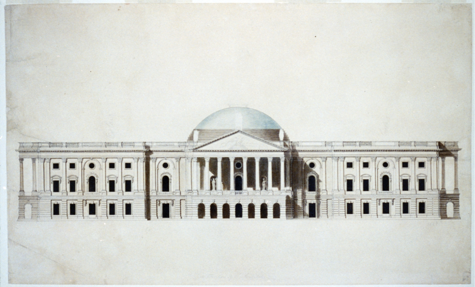 East elevation of the Capitol ca. 1796. An amateur architect from the British West Indies, Dr. William Thornton was awarded $500 and a city lot for his design of the Capitol. Today, he is honored as the first architect of the Capitol. (Photo: Courtesy Library of Congress)